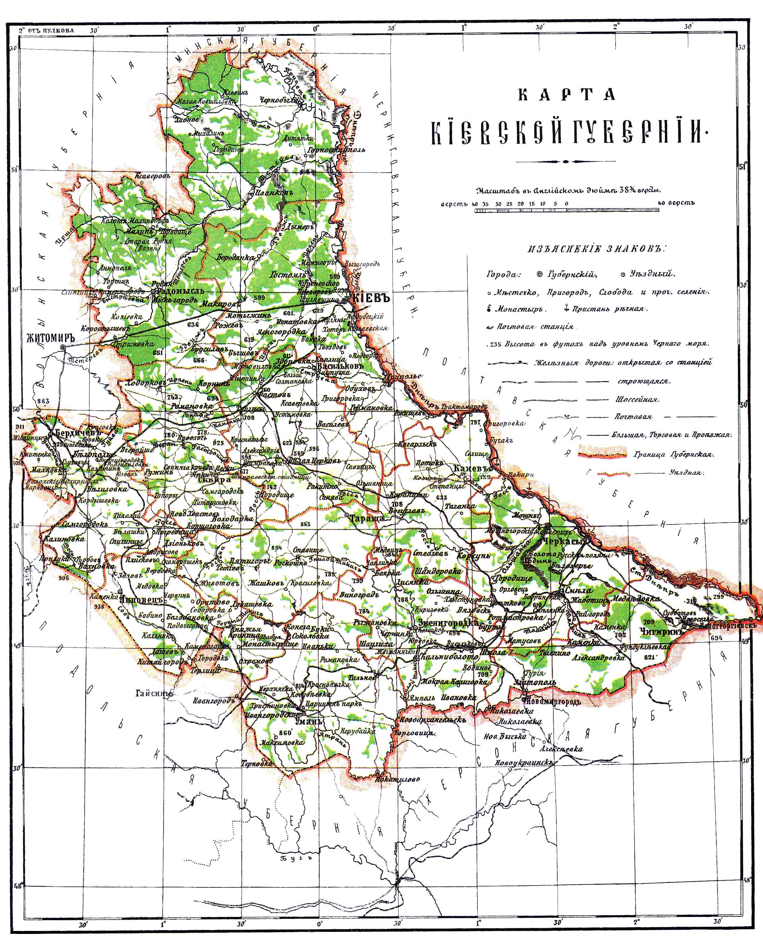 Illustration from Brockhaus and Efron Encyclopedic Dictionary (1890—1907)